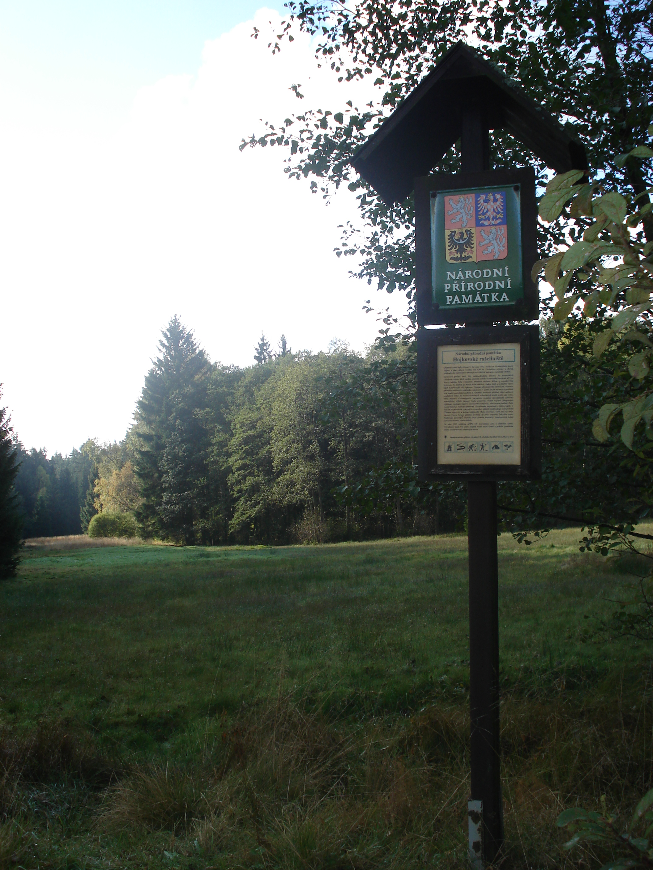 Northern part of national nature reserve Hojkovské rašeliniště in Jihlava District, Czech Republic